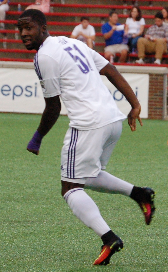 Michael Cox, Austin Berry Taken during USL regular season match between FC Cincinnati and Orlando City B at Nippert Stadium in Cincinnati, USA on September 17, 2016.